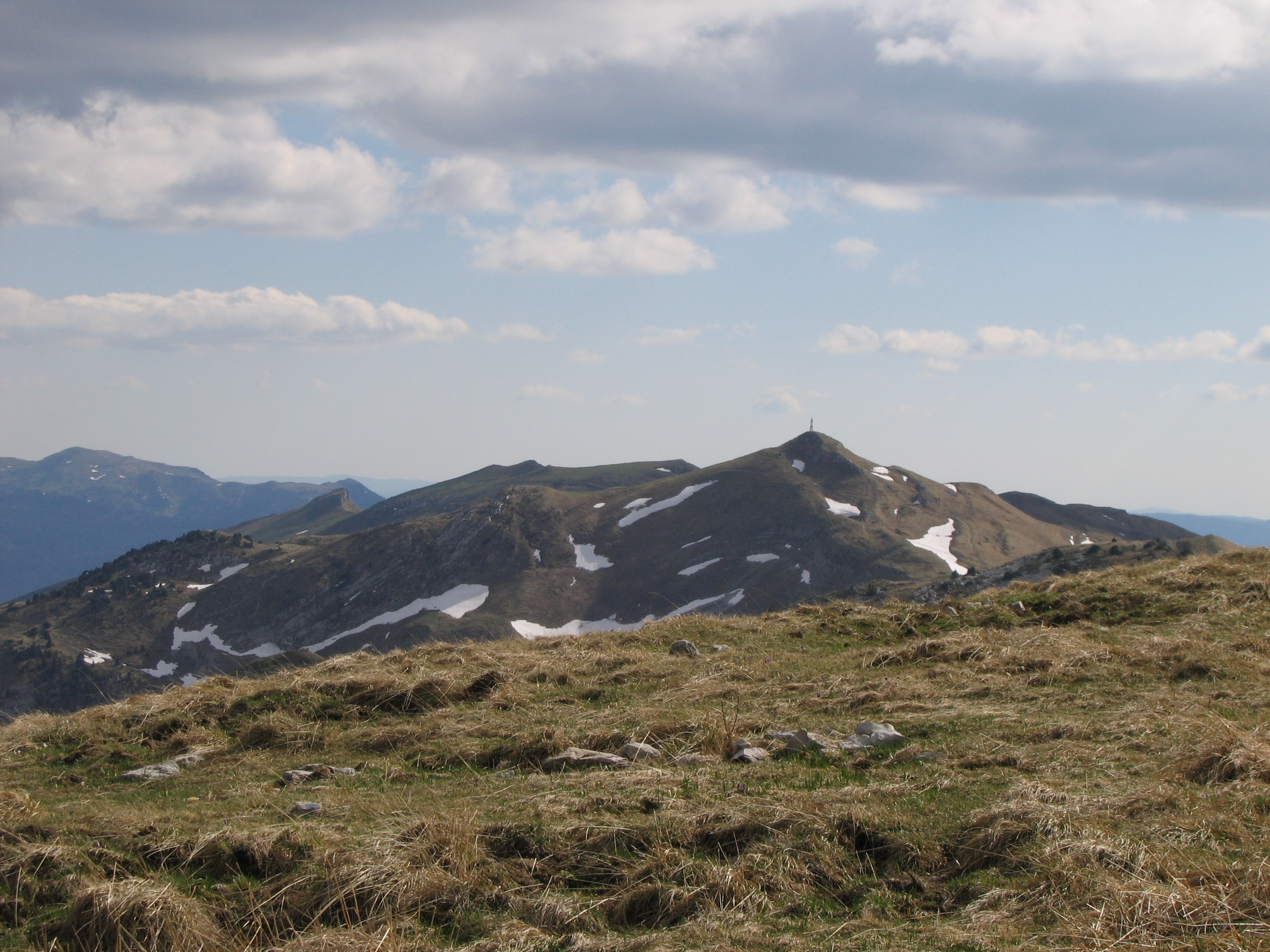 Le Reculet – view from the north-east